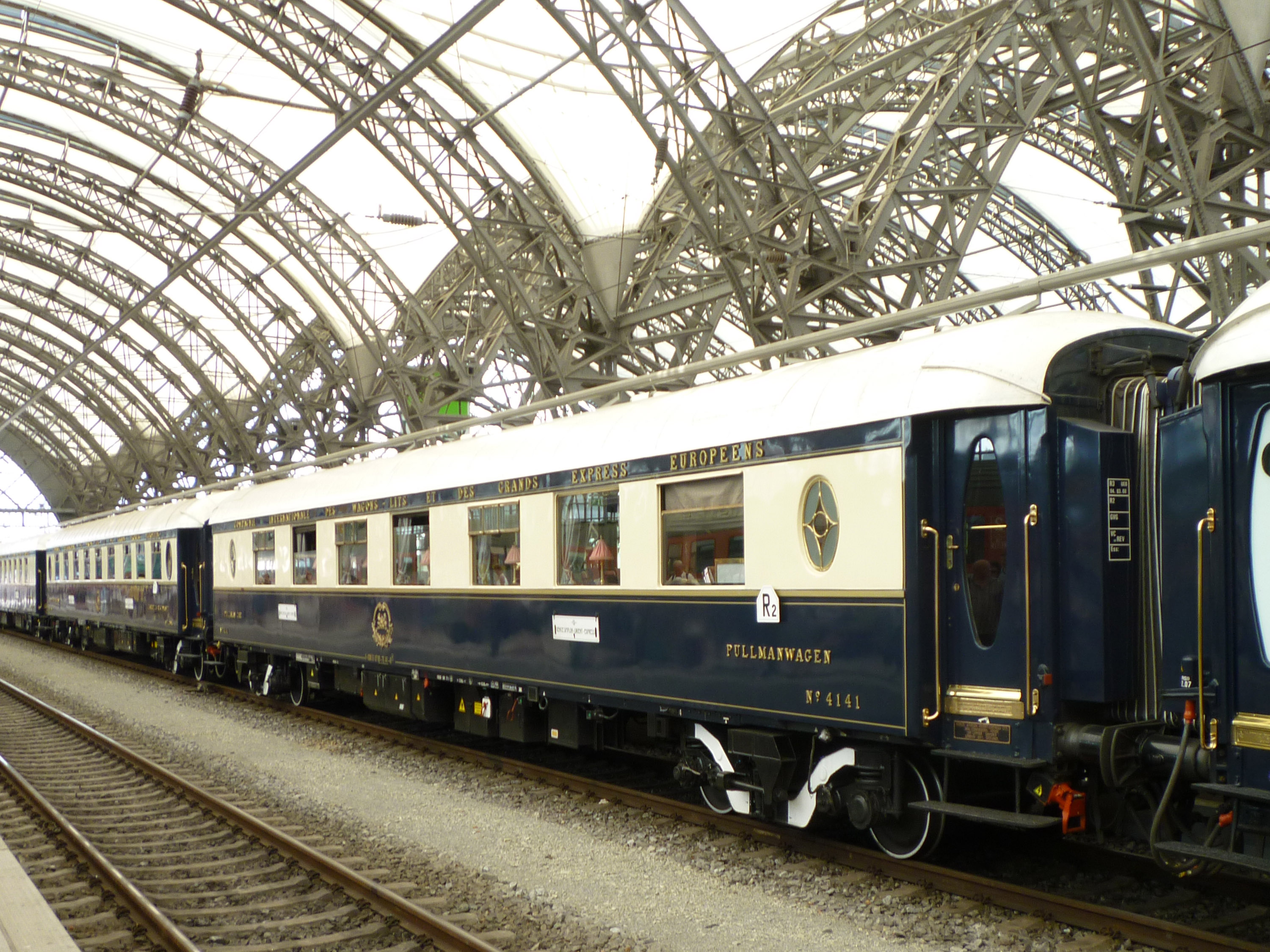 Venice Simplon-Orient-Express Dresden Mainstation